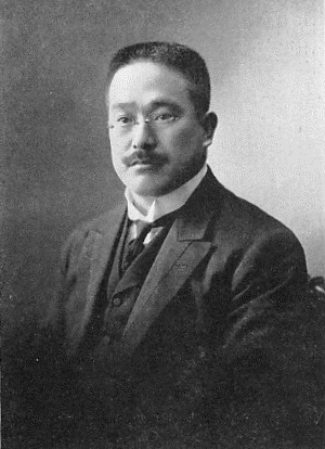 Hachiro Saionji